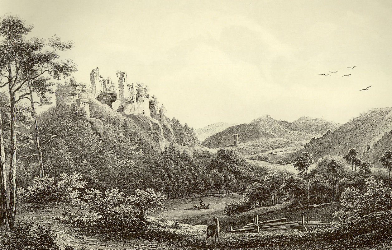 historical sight of the German village of Dahn by R. Höfle and Johann Poppel